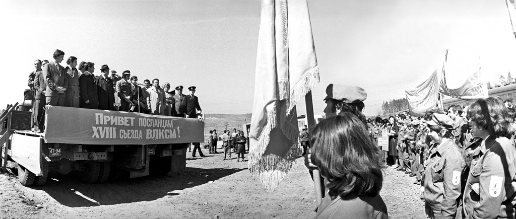 “Shock unit named after the 18th Komsomol Congress”. A rally devoted to the arrival of the volunteers of the Shock Komsomol Unit named after the 18th all-Union Komsomol Congress in Ust-Ilimsk.